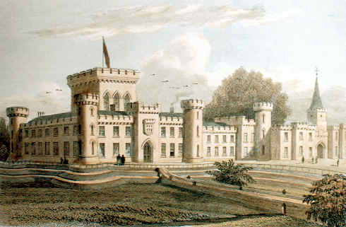 Watercolour of Lee Place, or Lee Castle, near Lanark, Scotland, illustrated in teh 19th century